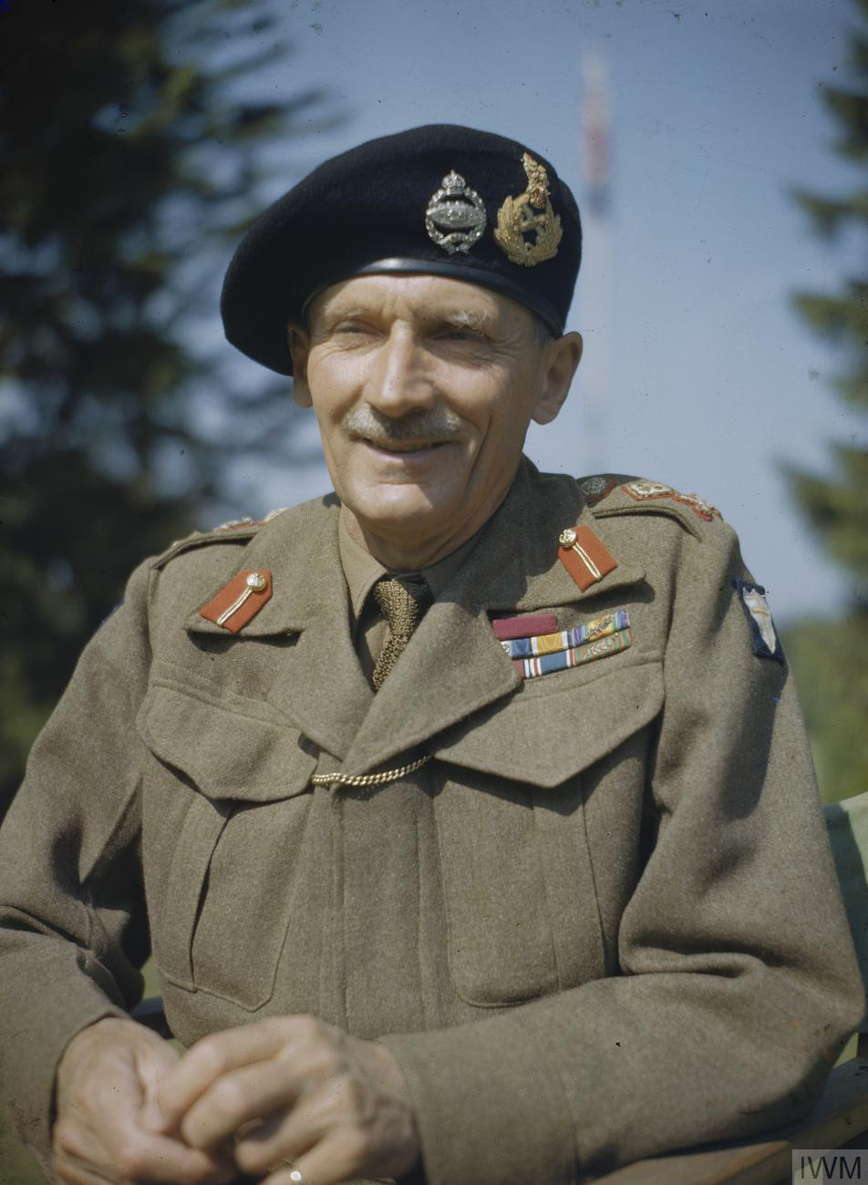 General Sir Bernard Montgomery in England, 1943 Half-length portrait of the Commander of the Eighth Army General Sir Bernard Montgomery taken during a visit to England.